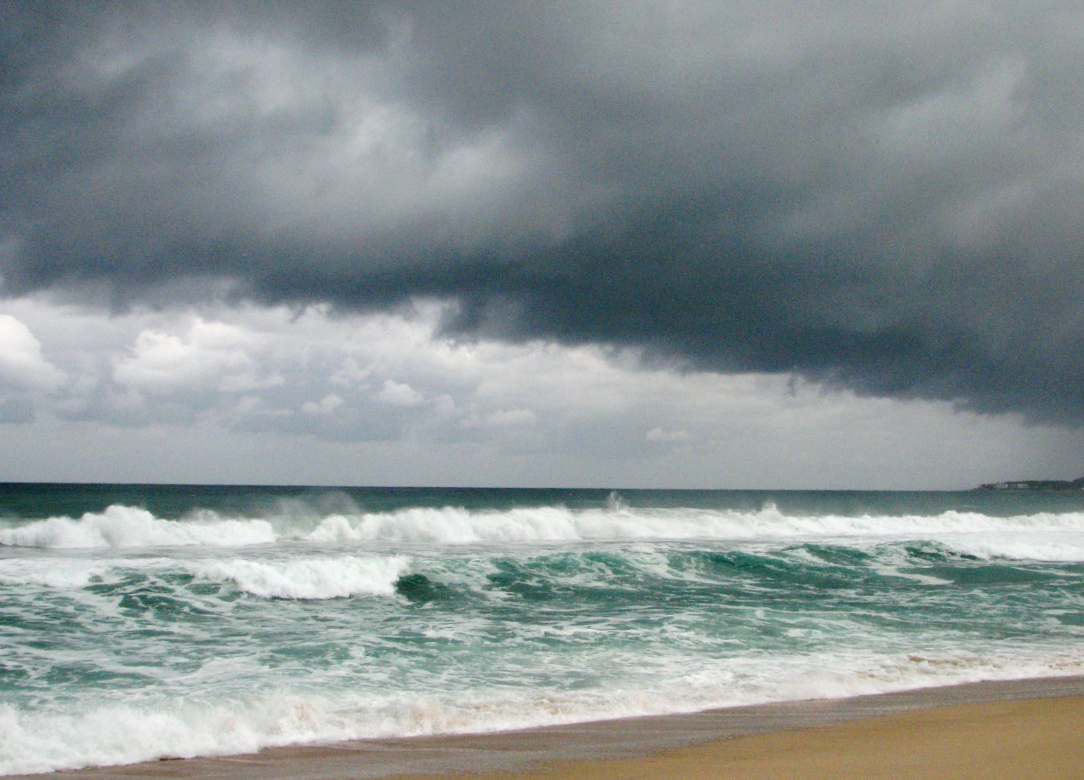 Overcast skies and increased wave action from offshore Hurricane Rick in Baja California Sur